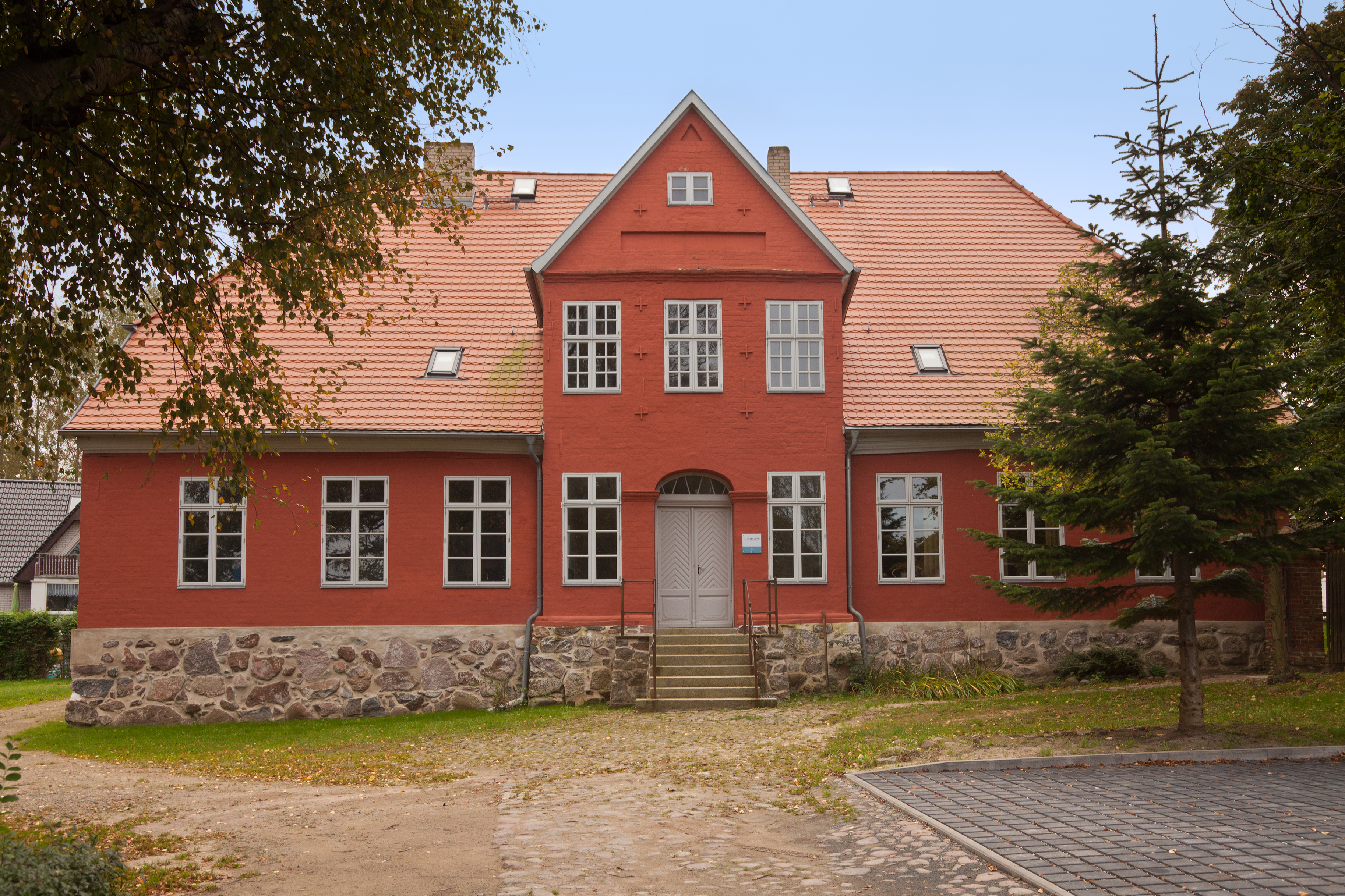 Sagard, August-Bebel-Straße 44, rectory, cultural heritage monument